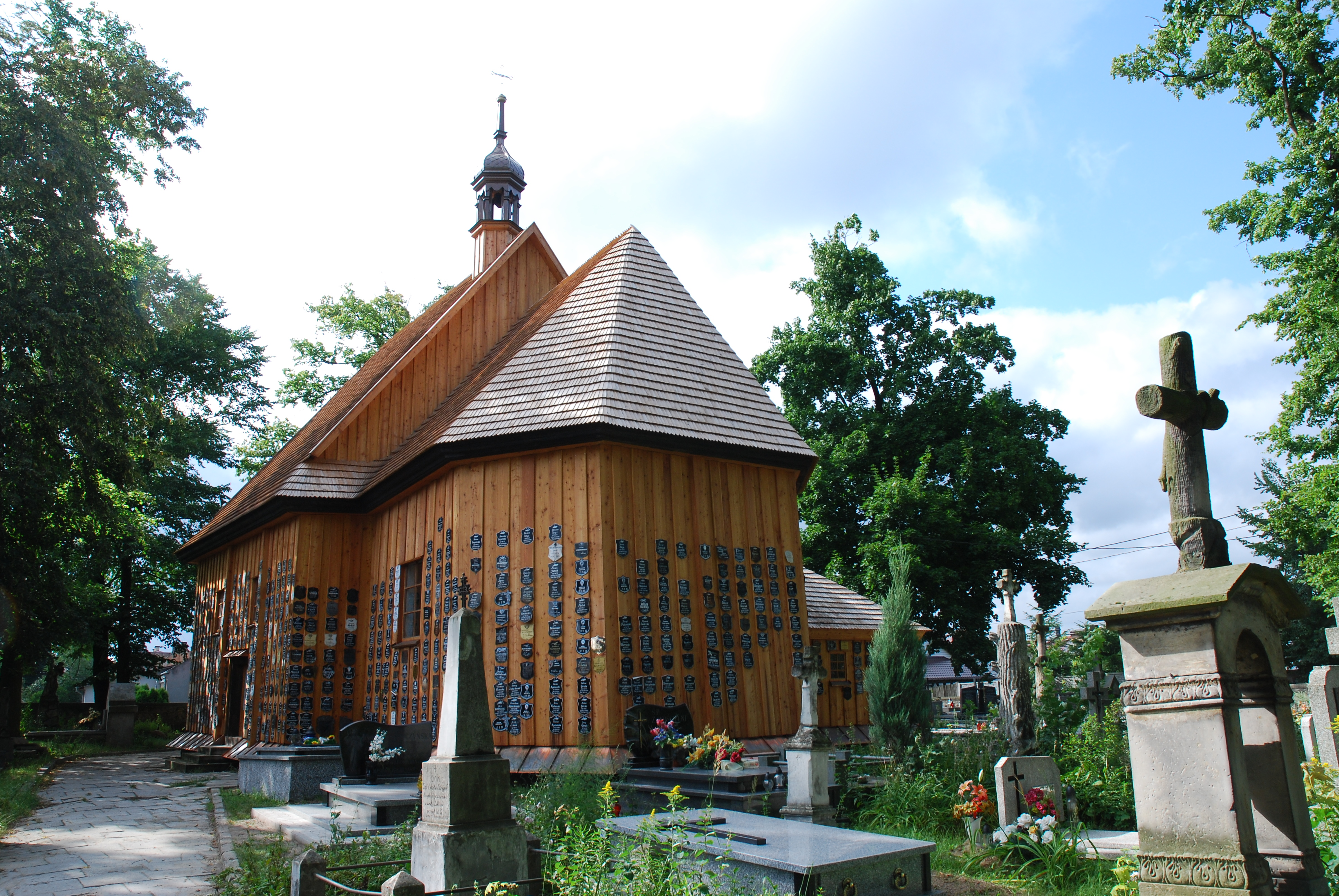 Catholic church of Saint Anna in Zaklików (c. 1580), Subcarpathian Voivodeship, Poland